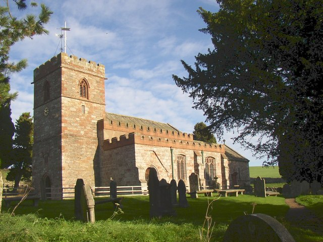 St Andrew's Church, Dacre Originally 12C, thought to be built on the site of a monastery. The arcades are 13C as are the aisles, although in Perpendicular style with battlements. The west tower is Norman, but was rebuilt in 1810, retaining the plain arch into the nave. The chancel is late 12C, with a doorway with thin shafts, and long round-arched windows. The chancel arch, vestry and east windows are 19C, with stained glass by Clayton & Bell. There are two parts of cross-shafts in the church, an Anglian one (9C) with naturalistic detail and a human-faced quadruped, and a Viking one of the 10C. The four corners of the original churchyard are marked by four bears (see photo of churchyard).